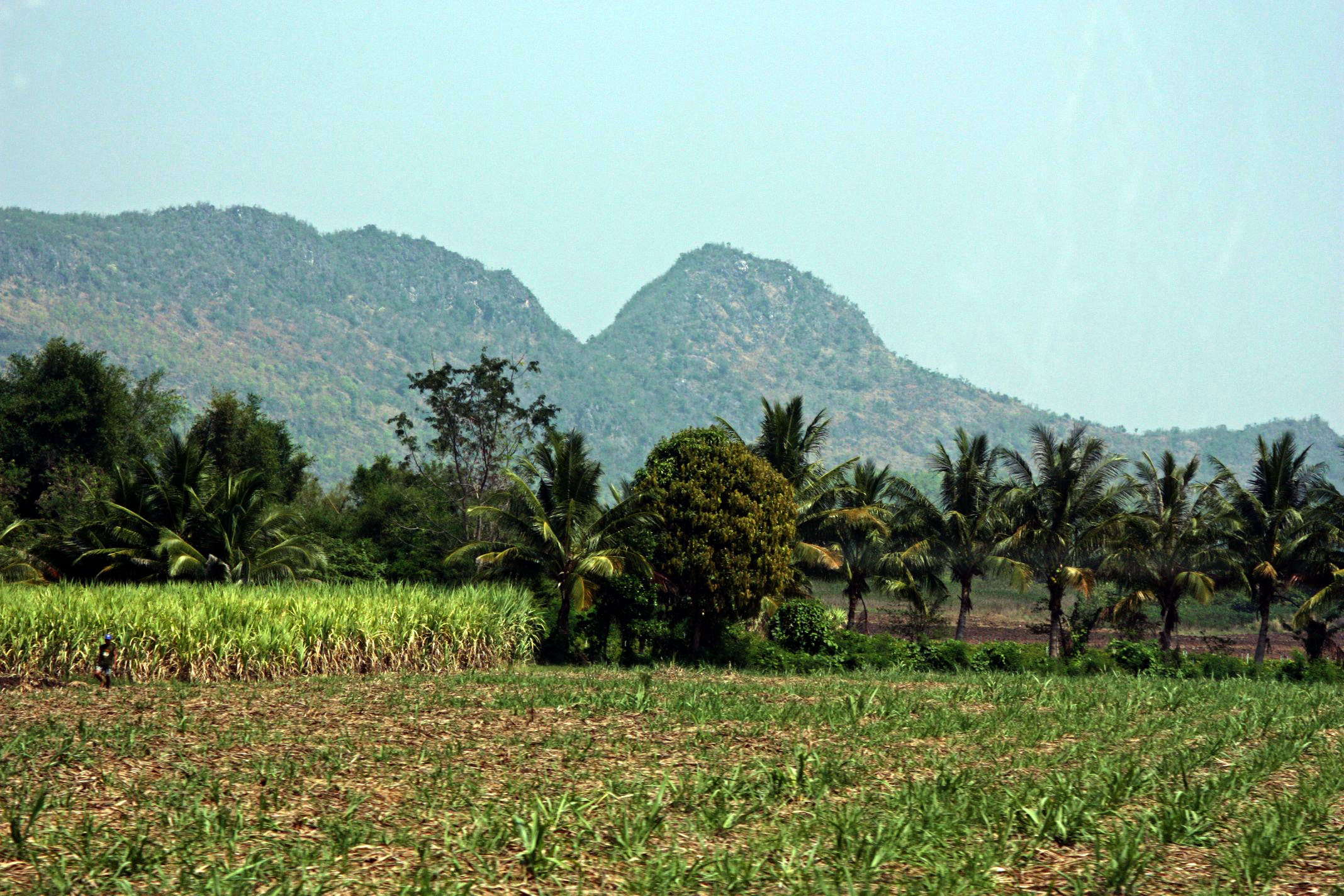 Tanaosi Range, Thailand